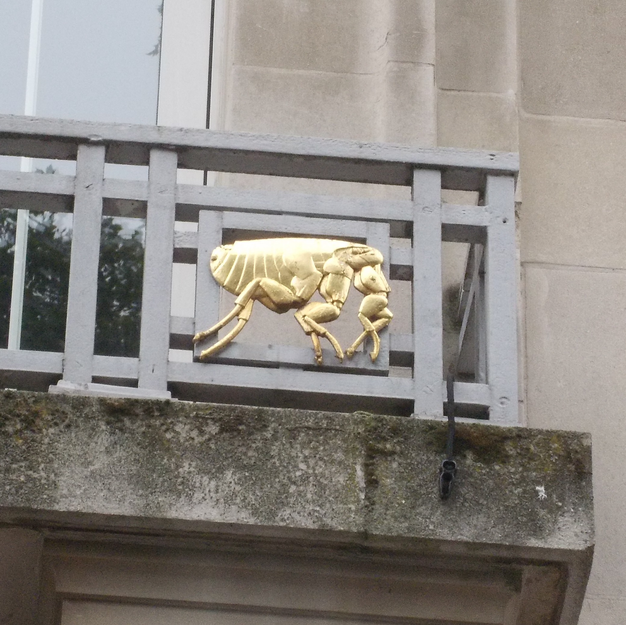 1920s Art Deco Balcony Decoration: a flea, a vector of bubonic plague, sculpted on the front of the London School of Hygiene and Tropical Medicine.